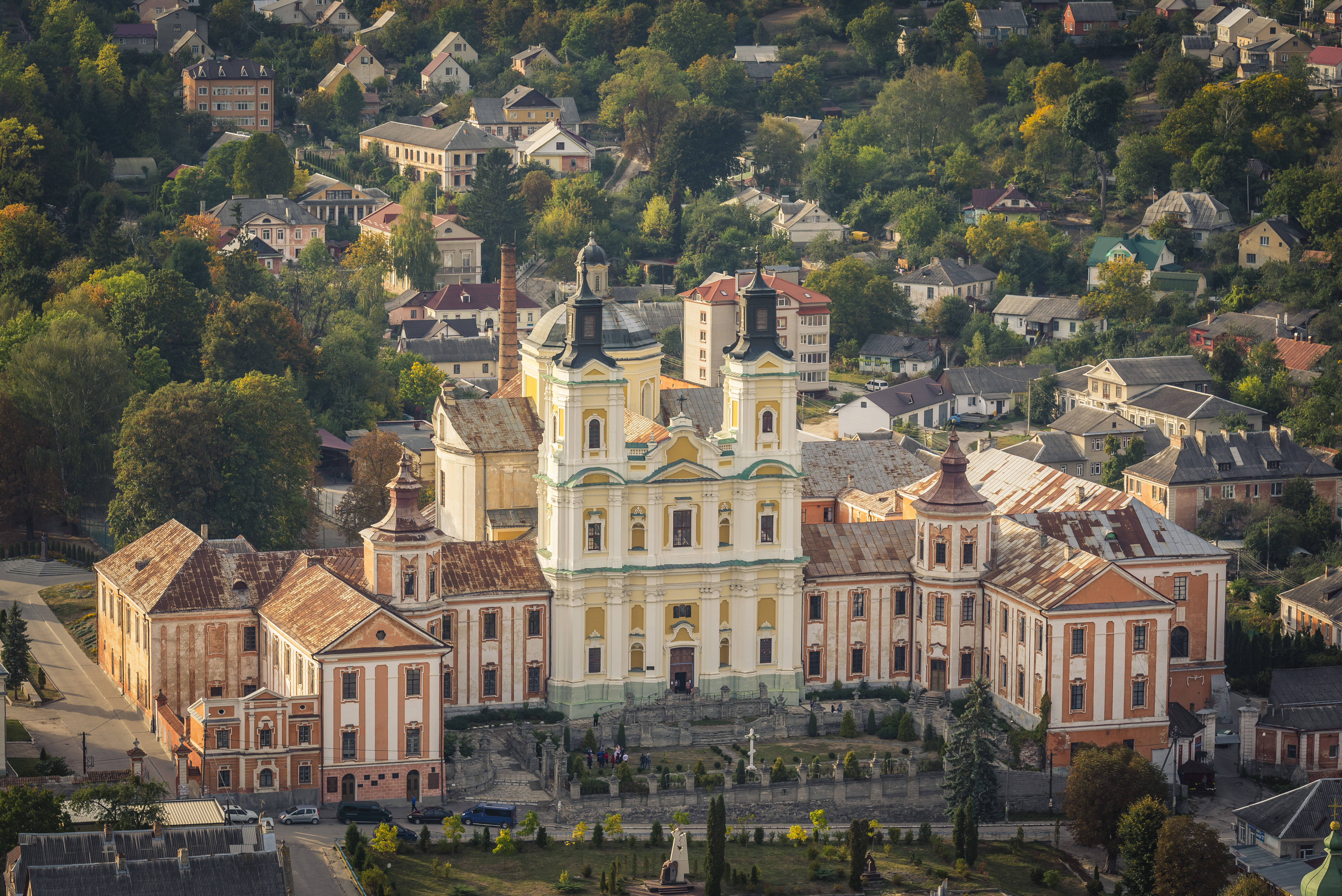 The complex of a former Jesuit College, Kremenets, Ternopil Oblast, Ukraine. Designed by Jesuit architect Paweł Gizycki, and founded by the Wisniowiecki family, it was built in 1731-1753, and amongst other buildings, consists of the Saint Ignatius of Loyola church.